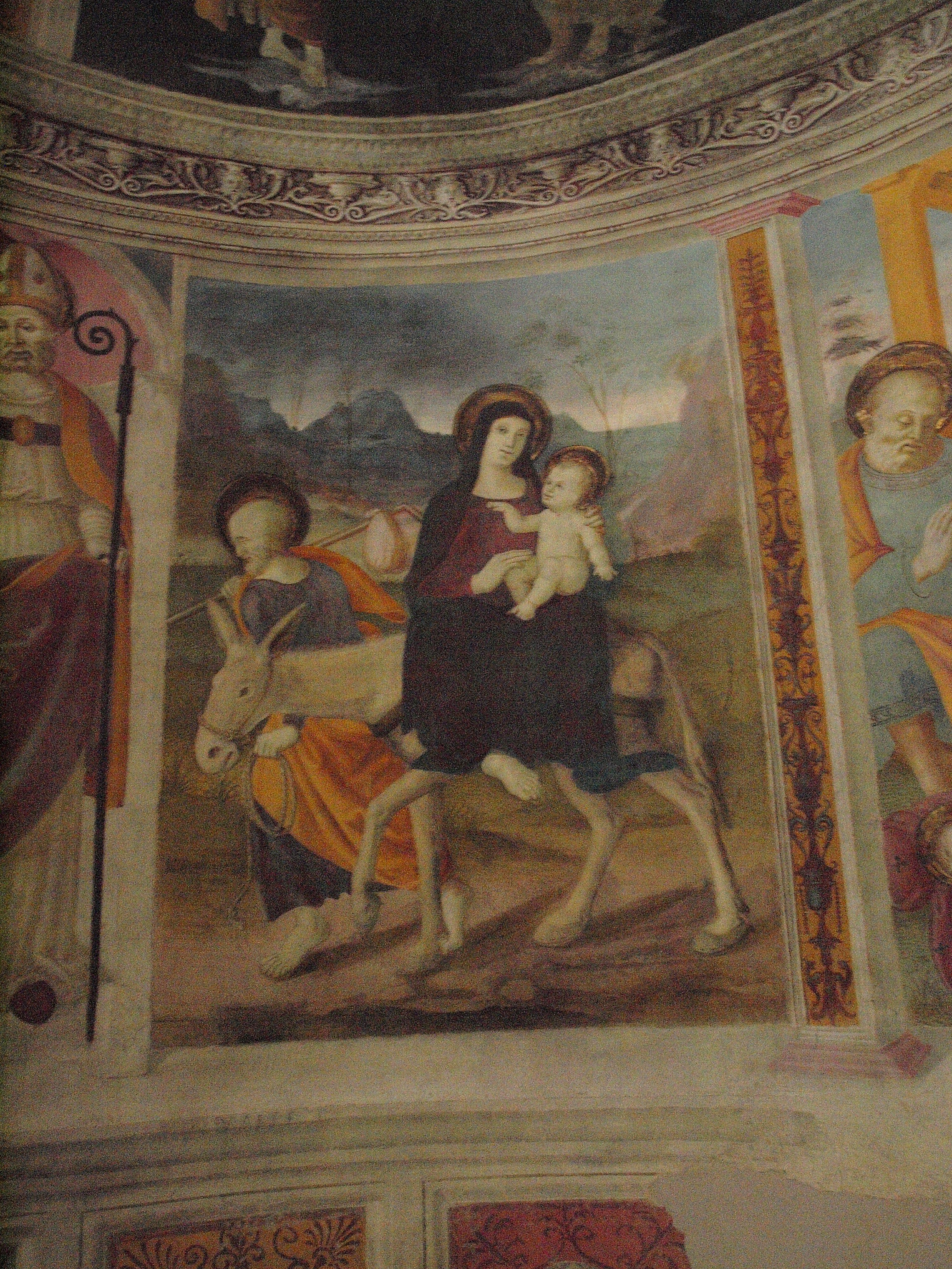 The Flight into Egypt